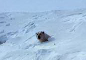 A female polar bear emerges from her maternity den